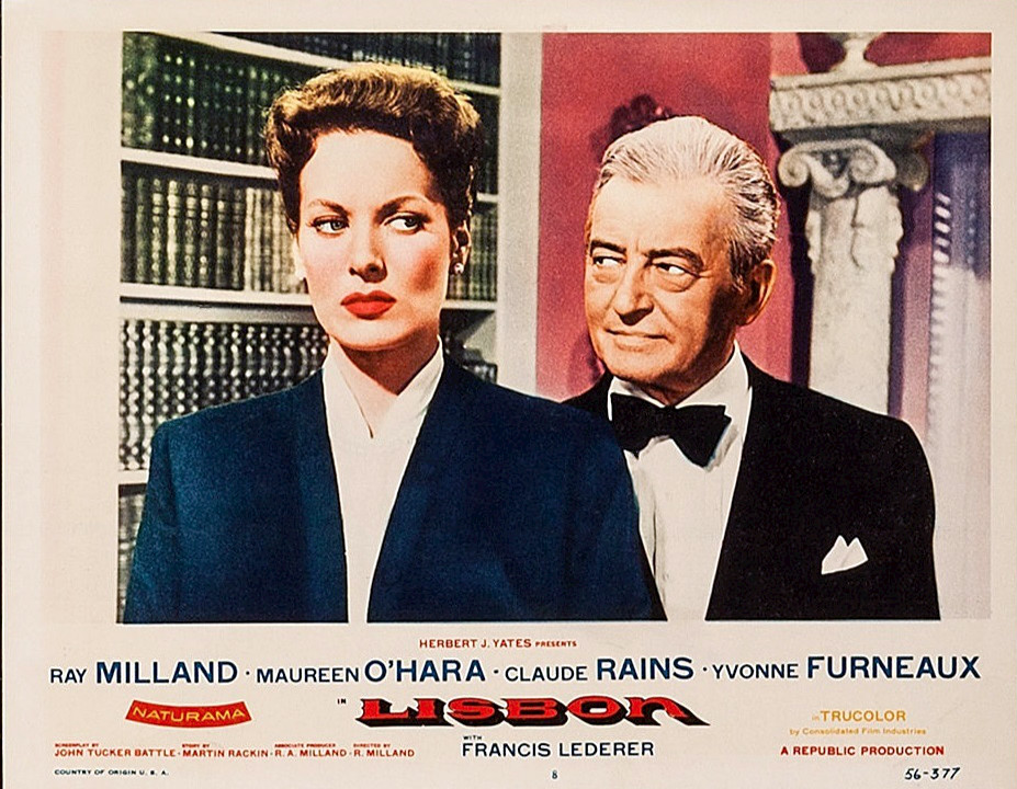 Lobby card for the film Lisbon. Pictured are Maureen O’Hara and Claude Rains.